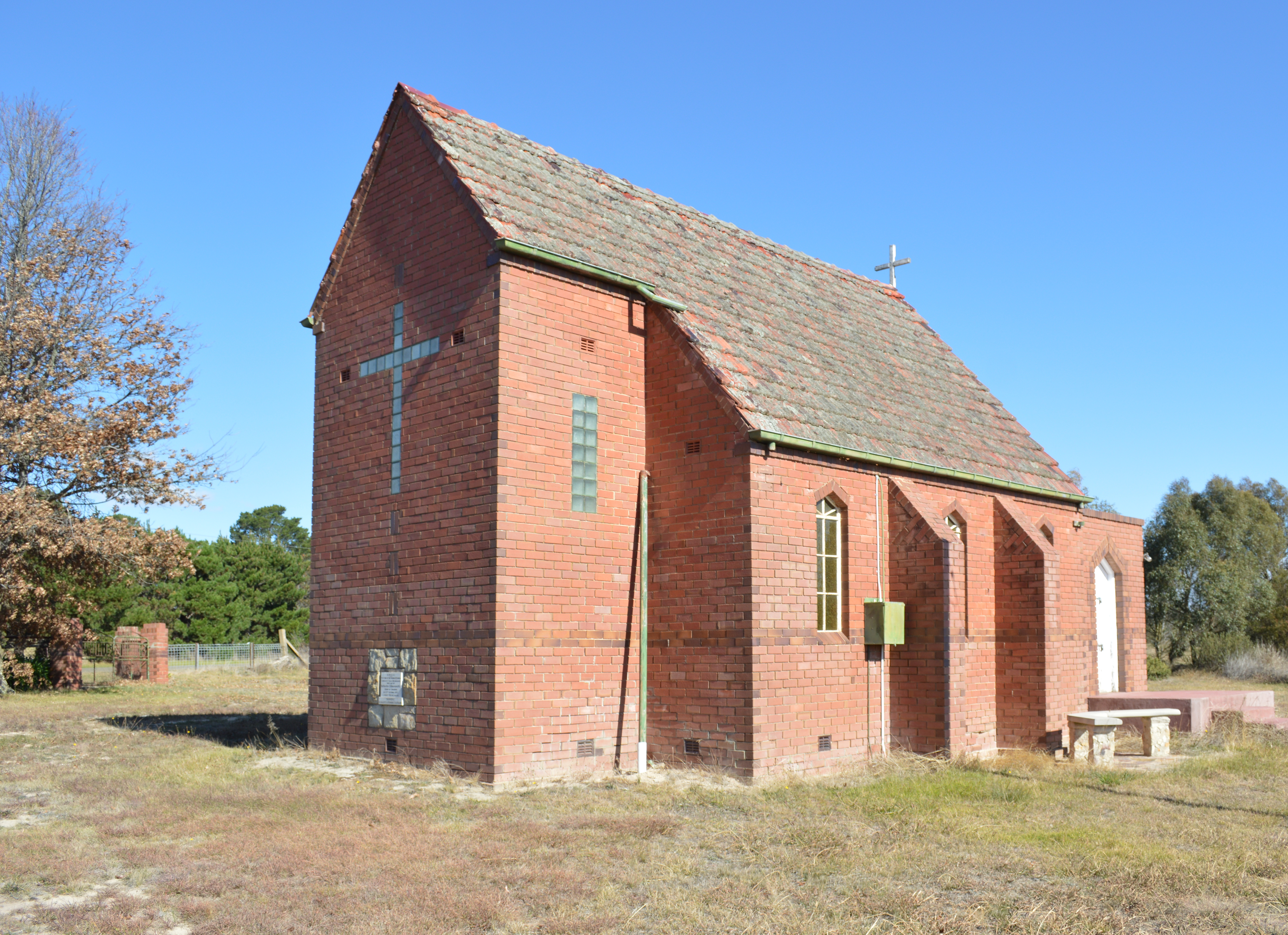 St Silas' Anglican church at Breadalbane, New South Wales